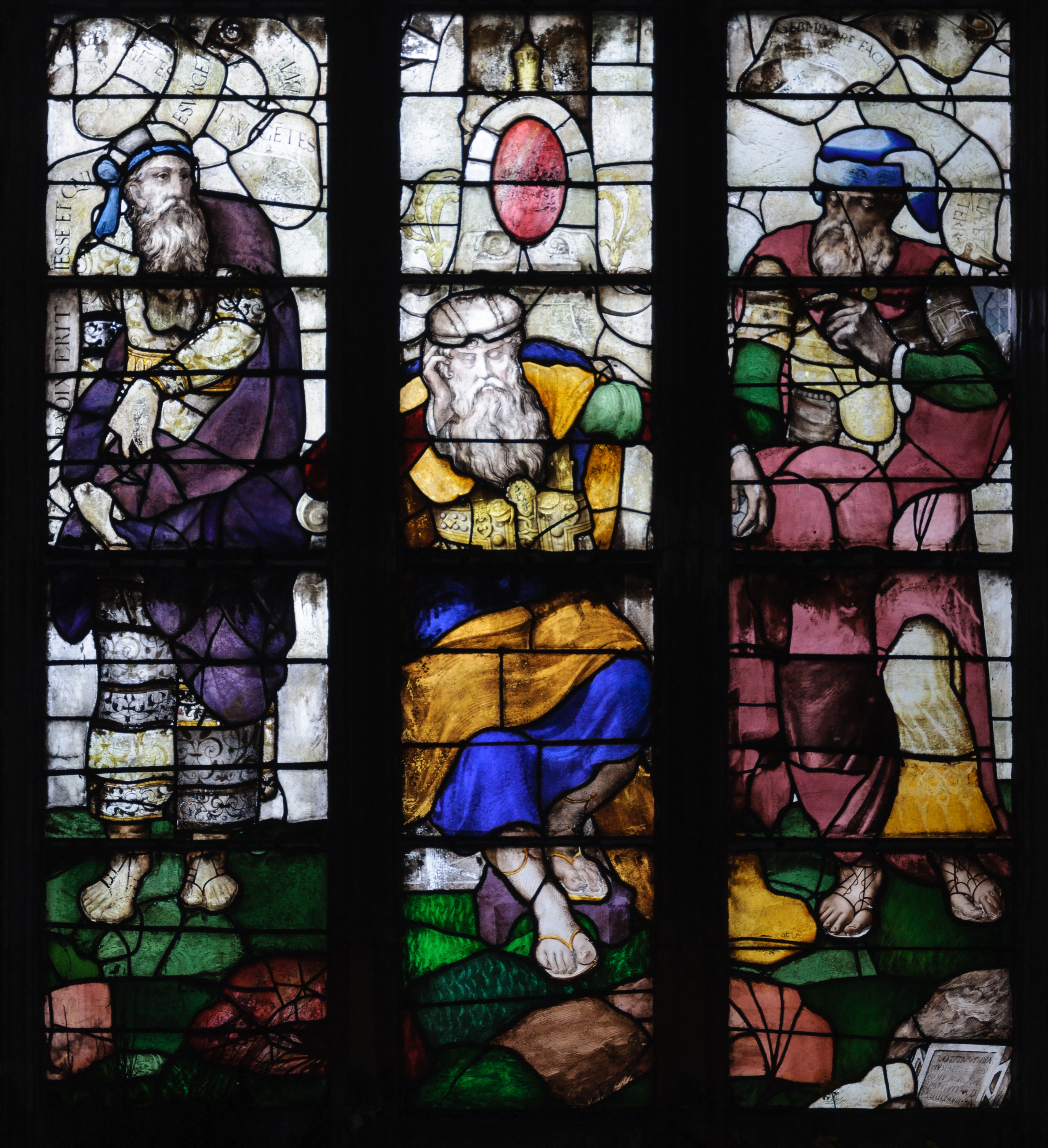 Stained glass window of Tree of Jesse (detail) in St Nicolas church, Châtillon-sur-Seine, Côte-d'Or department, Burgundy, France.